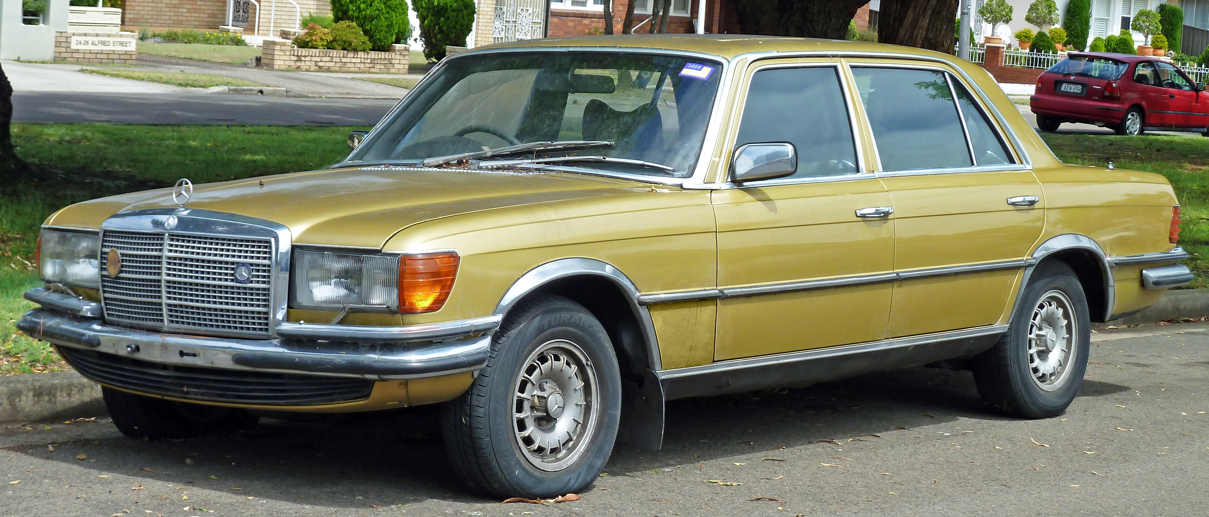 1973–1980 Mercedes-Benz 450 SEL (V 116) sedan. Photographed in Ramsgate Beach, New South Wales, Australia.